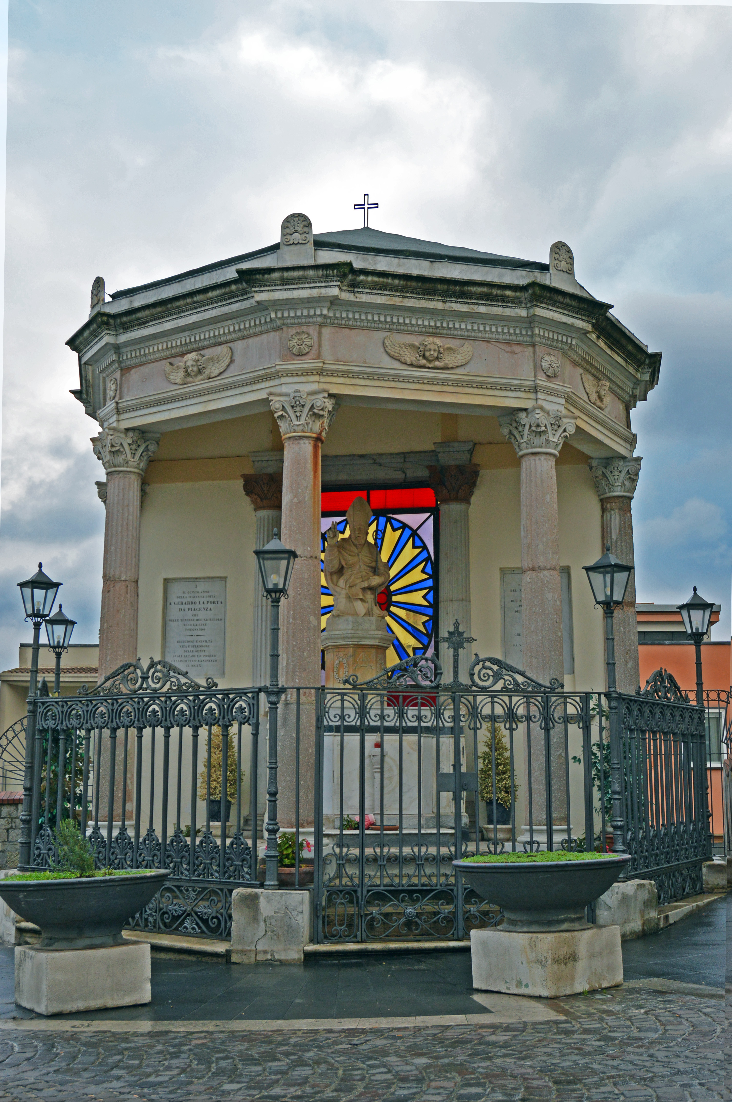 This is a photo of a monument which is part of cultural heritage of Italy.